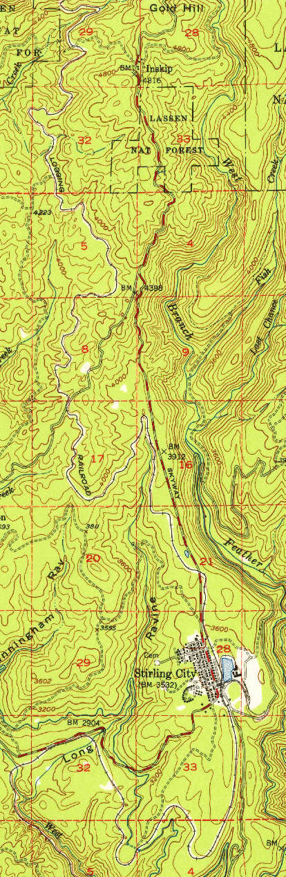 A 42-mile (68 km) standard gauge railroad was built from Stirling City to their manufacturing plant in Chico for operation by Southern Pacific and a metre-gauge railway branches to bring logs into Stirling City from surrounding forests